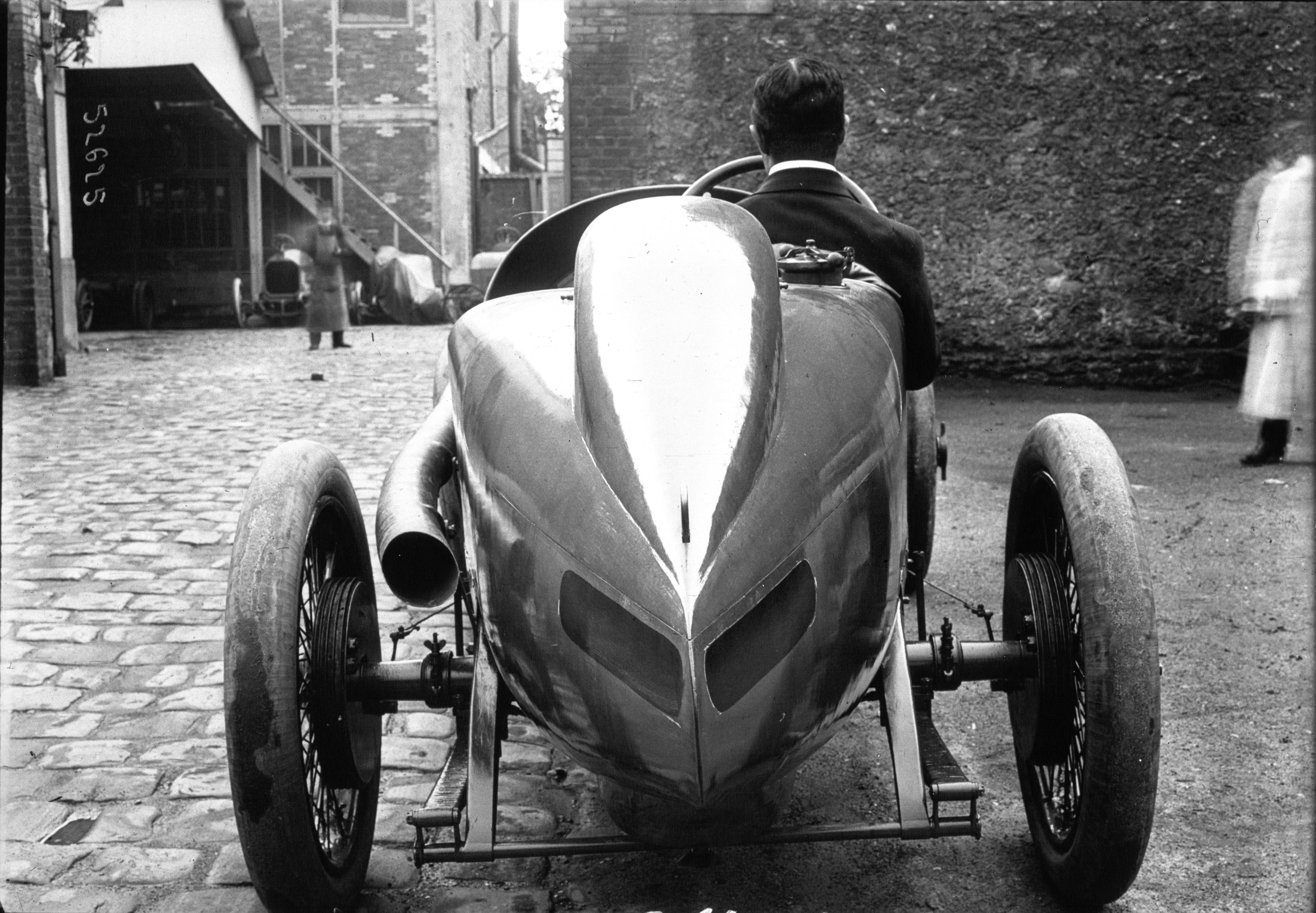 Peugeot at the 1914 Indianapolis 500